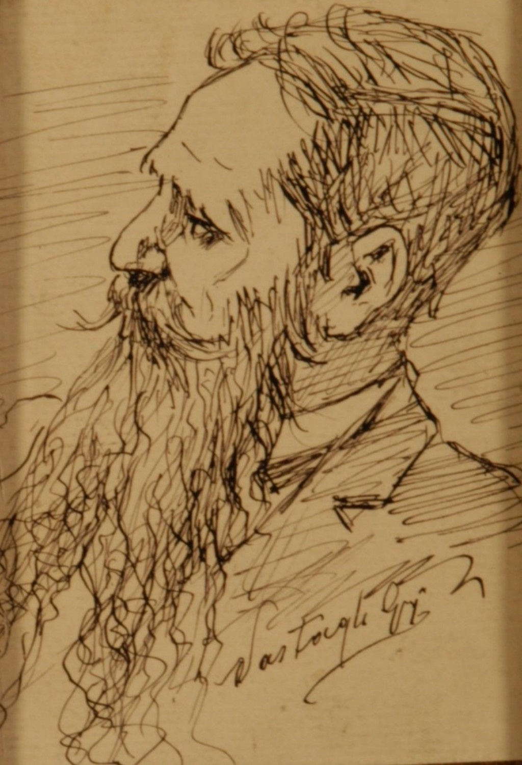 Self-portrait. ink on papermedium QS:P186,Q127418;P186,Q11472,P518,Q861259. 105 × 75 mm.